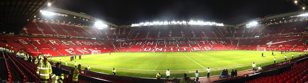 Manchester - Old Trafford - Manchester United vs Crawley Town